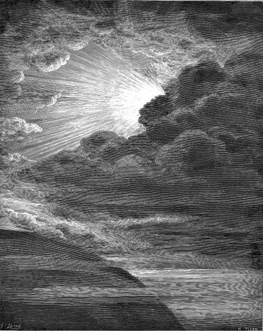 The Creation of Light (Gen. 1:1-5) The engraving depicts a literal representation of Genesis 1:1 ("Let there be light").